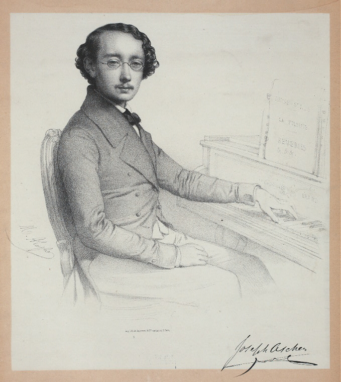 Taken from - PD due to its age